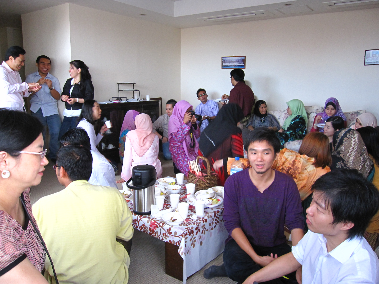 An image for a Malaysian family inviting relatives and friends for Eid ul-Fitr, in what's called Open House.